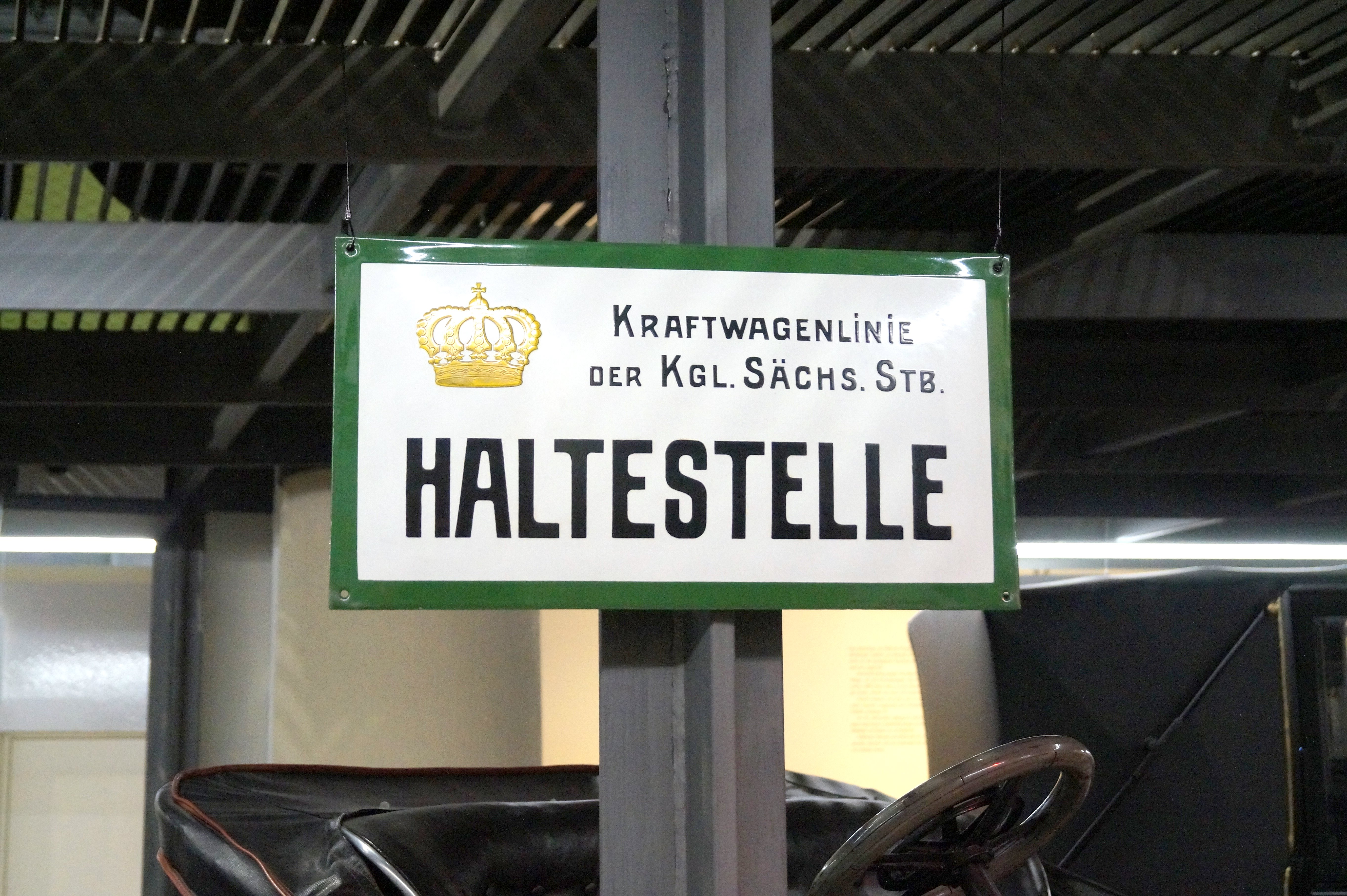 motor vehicle stop sign of Kgl. Sächs. Stb.